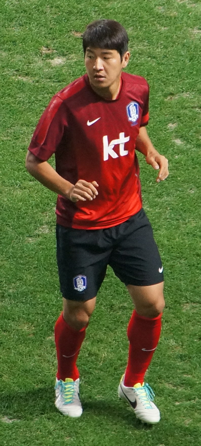 Park Joo-ho.